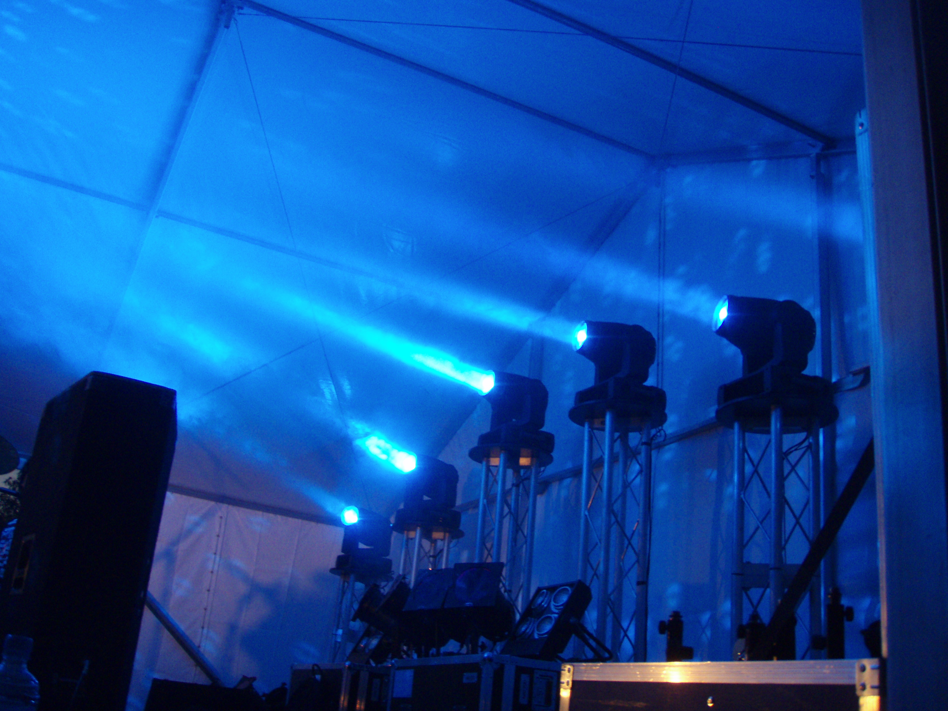 A Series Moving Head Light